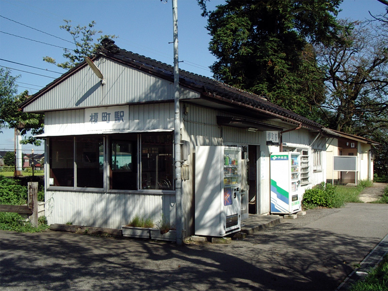 Enokimachi Station on the Toyama Chiho Railway Tateyama Line in Tateyama, Toyama Prefecture, Japan